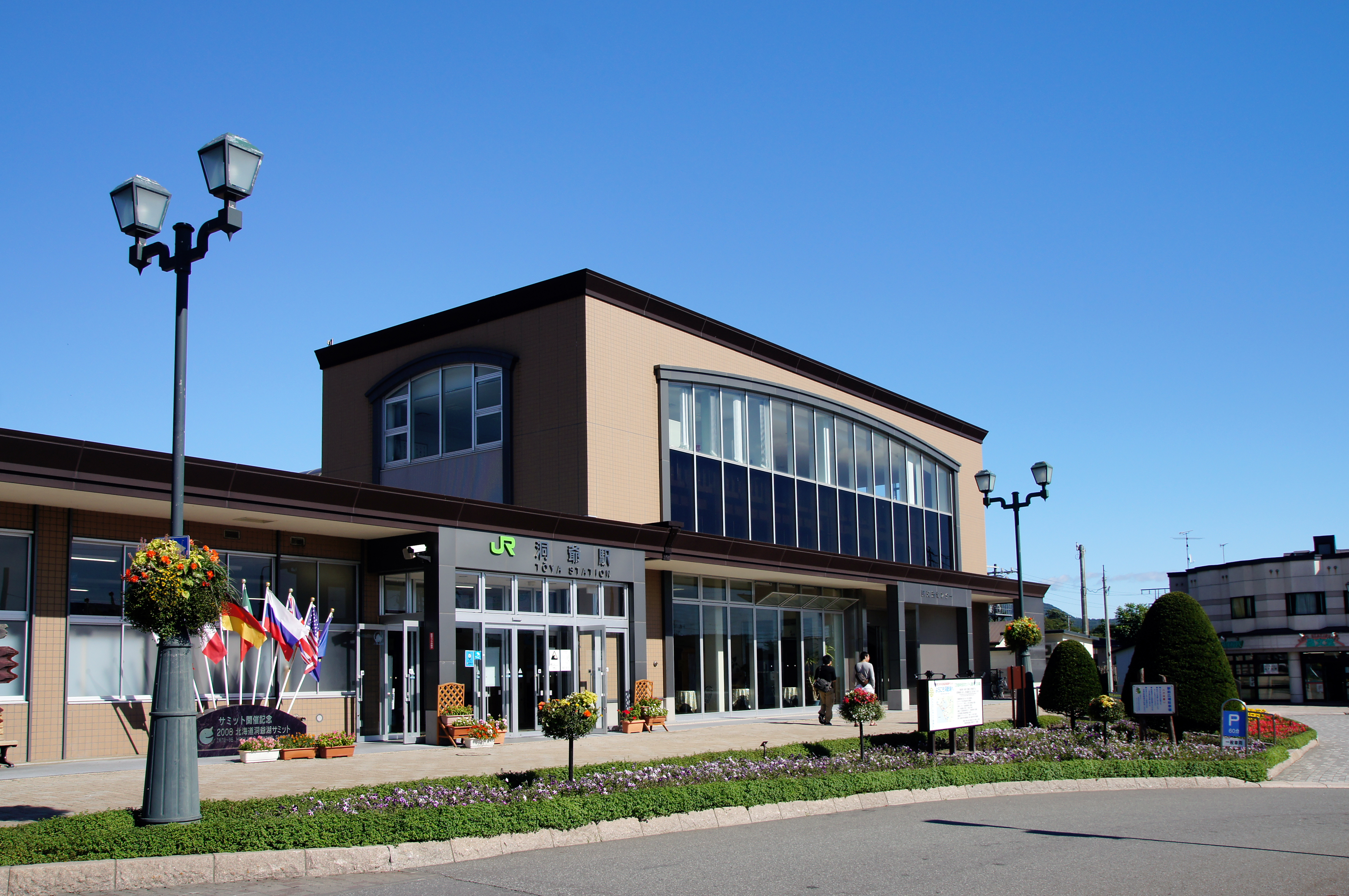 Tōya Station in Toyako, Hokkaido, Japan